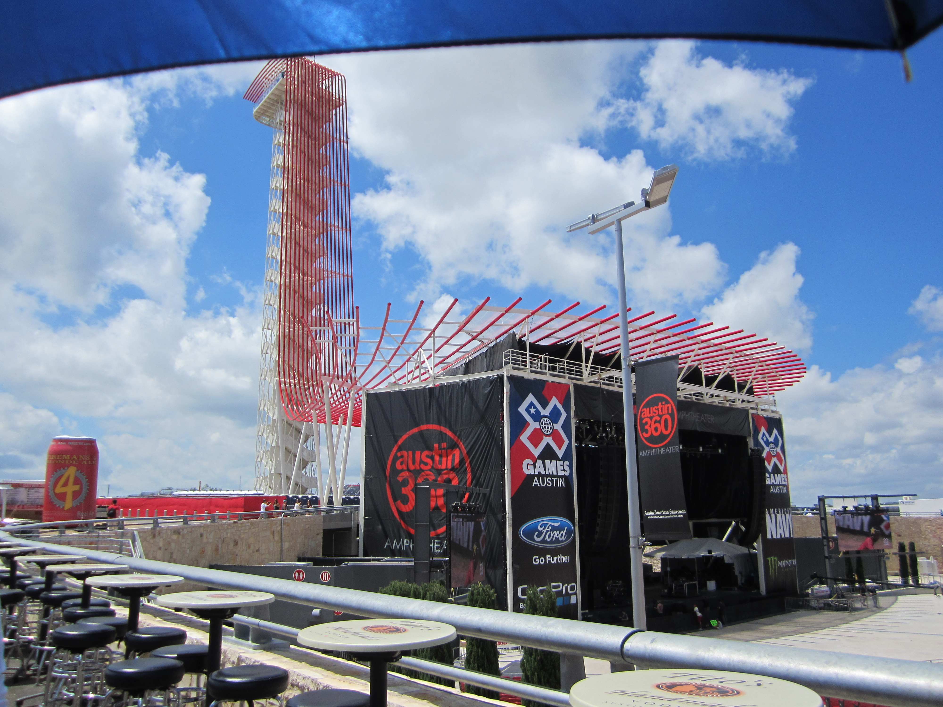 COTA Observation Tower with X Games 2014 Signage. Circuit of the Americas, Austin, Texas, USA, 2014.